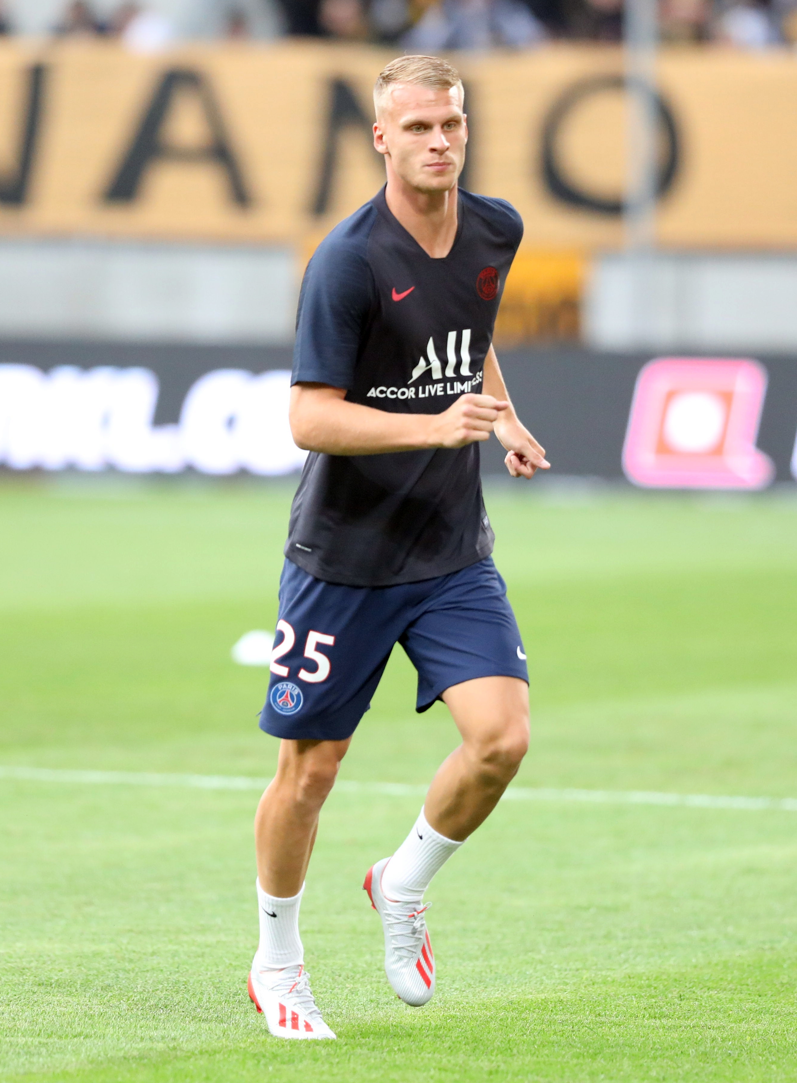 Test game, 17th July 2019: SG Dynamo Dresden vs. Paris Saint-Germain 1:6 (0:3)